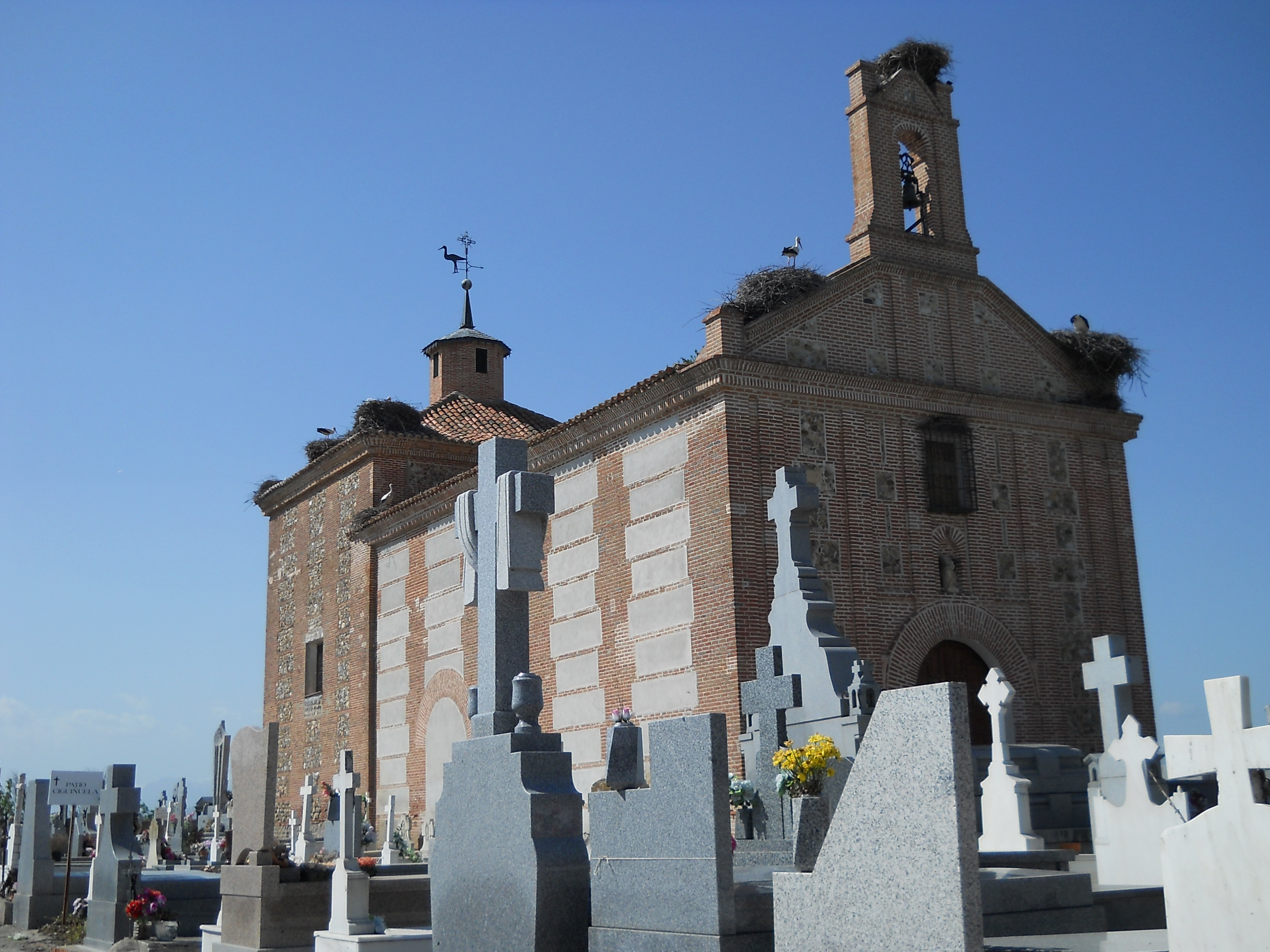 Chapel of the Ciguiñuela, Fuente el Saz de Jarama, Madrid, Spain